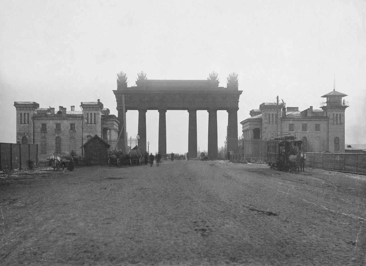 Horsetram end stop near Moskovskie gates